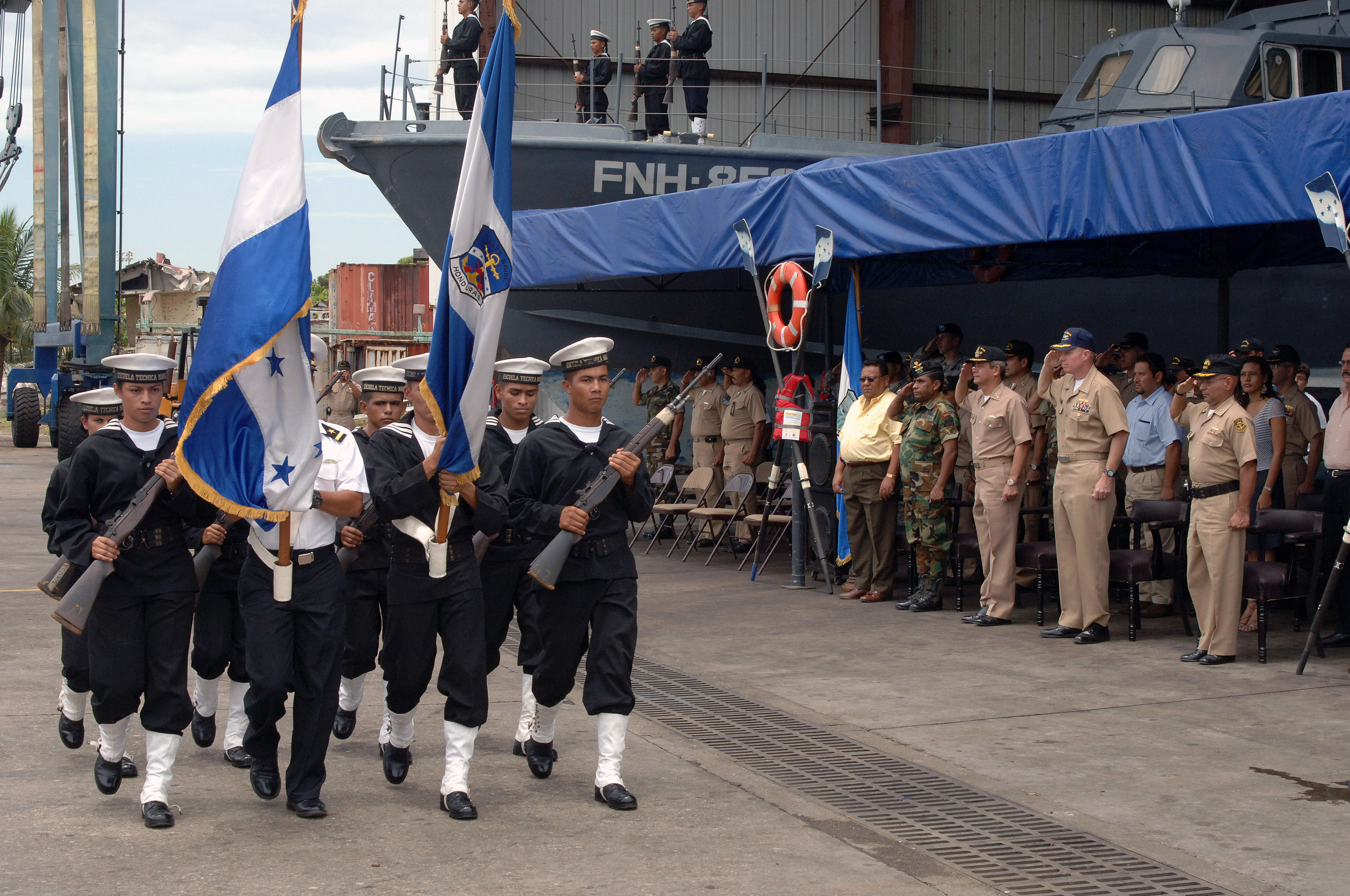 PUERTO CORTES, Honduras (Aug. 23, 2007) - Capt. Douglas Wied, commander of Task Group 40.9, renders honors to a Honduran Navy color guard during a ceremony for the L.P. Guaynauras (FNH-1051), a Honduran patrol boat, marking the beginning of its participation in PANAMAX 2007. Task Group 40.9 is deployed under the operational control of U.S. Naval Forces Southern Command for the Global Fleet Station (GFS) pilot deployment to the Caribbean Basin and Central America. The GFS mission is to conduct a broad range of theater security cooperation activities with regional maritime services. U.S. Navy photo by Mass Communication Specialist 1st Class David Hoffman (RELEASED)